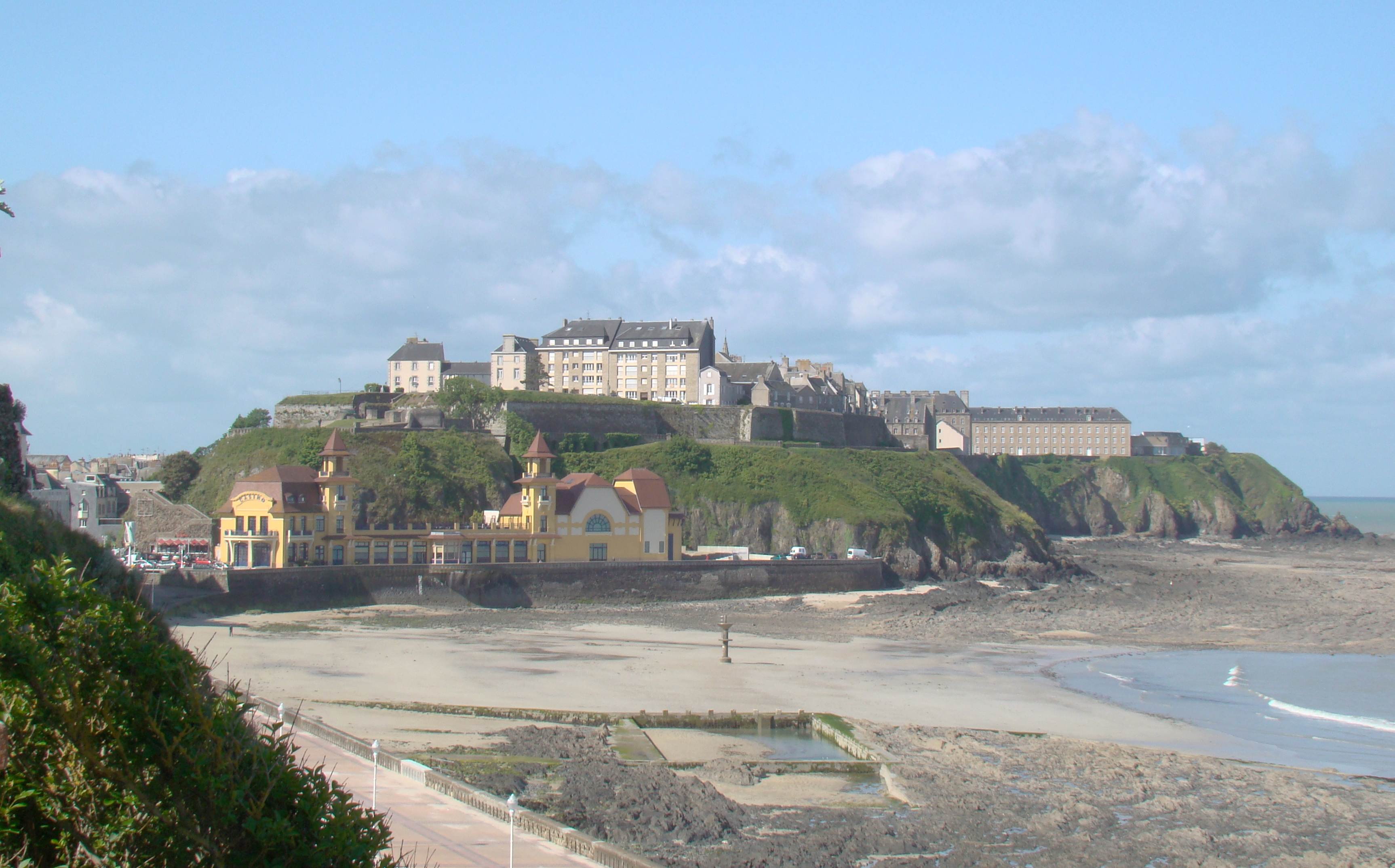 Granville, Manche, beach, casino and upper town